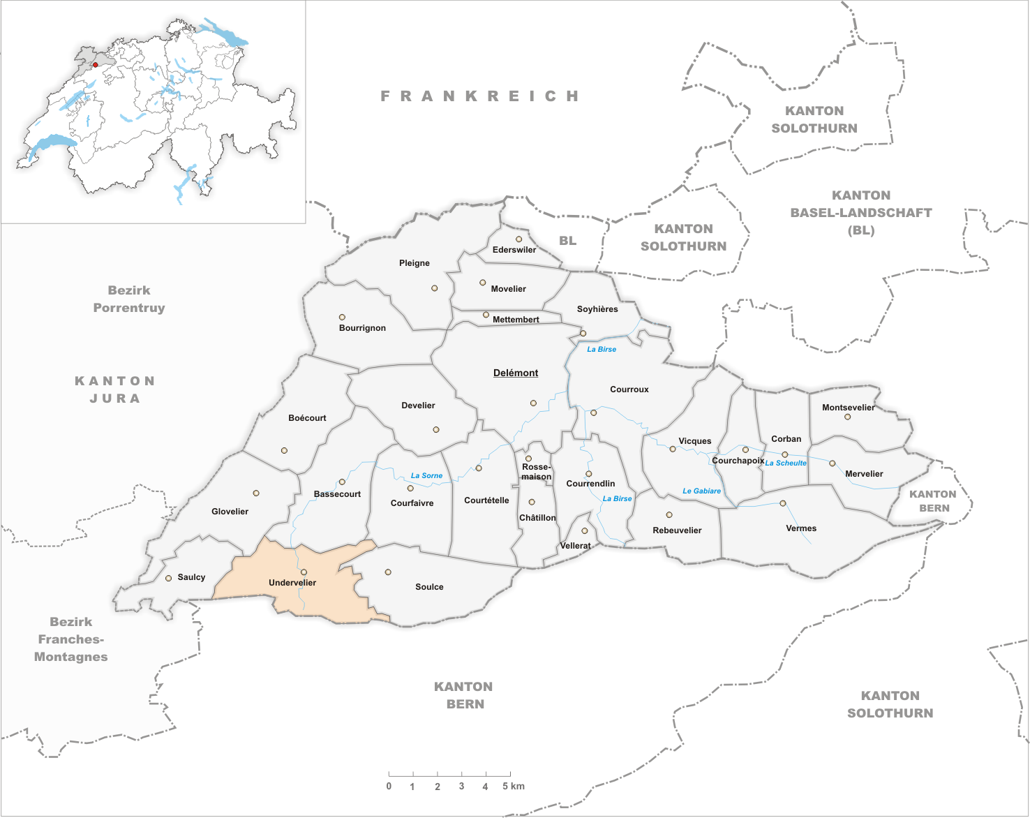 Municipality Undervelier